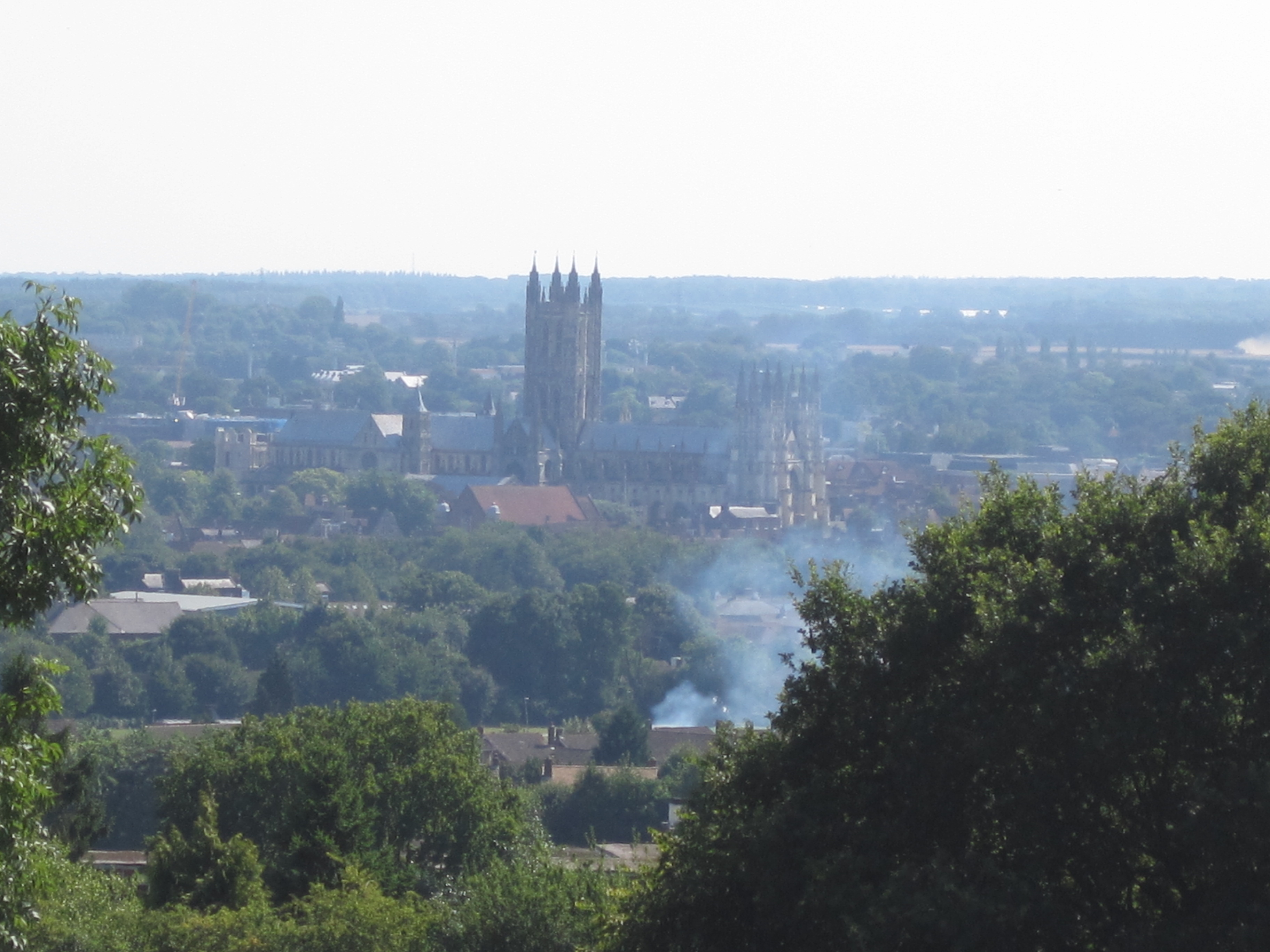 View of Canterbury, including the cathedral, from the University of Kent campus.